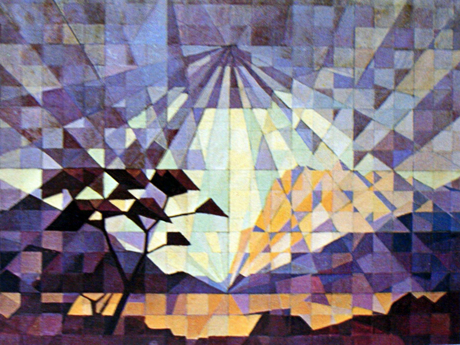 From source site:In 1928 Pierneef shocked the traditionalists by including some abstract modern and as some called it " Futuristic " works in an exhibition. These were not accepted as well as his traditional works that he became known for and after bad reviews from people like Anton Van Wouw, he had to revert back to his old style.